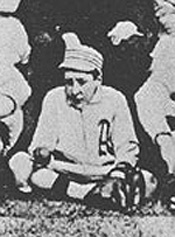 Batboy Louis Van Zelst, taken from a team photo of the 1910 Philadelphia Athletics